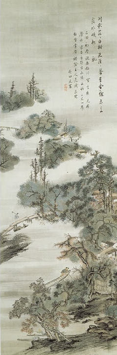 Boating on the Ina-gawa by Tanomura Chikuden, Oita Prefectural Art Museum, Oita, Oita, Japan